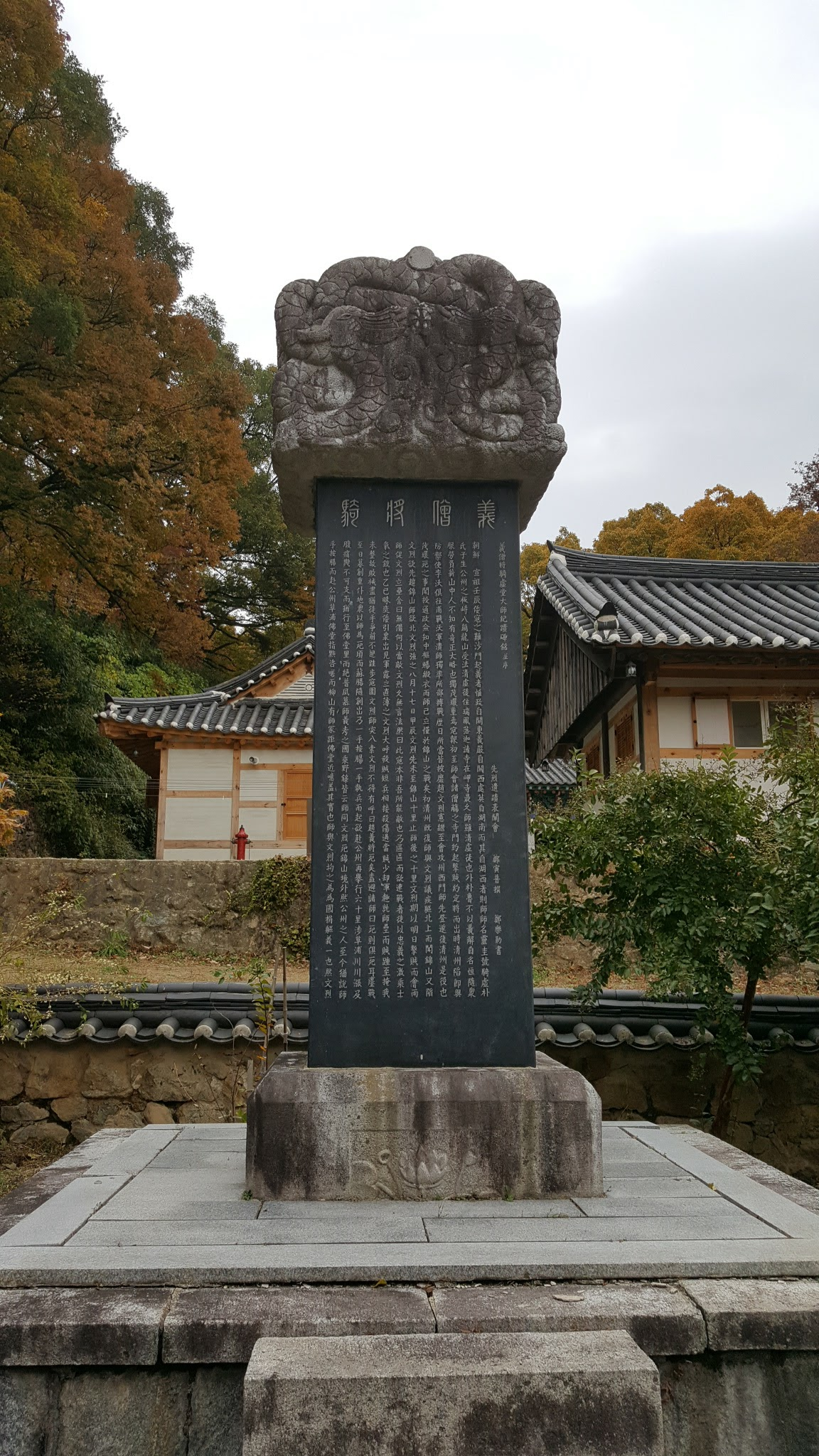 Memorial Tablet of Great Monk YoungGyu who fought at Imjin Korea-Japan war